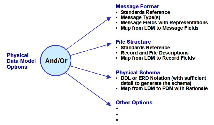 Physical Data Model —Options. The Physical Data Model (PDM) describes how the information represented in the Logical Data Model is actually implemented, how the information-exchange requirements are implemented, and how the data entities and their relationships are maintained. There should be a mapping from a given Logical Data Model to the Physical Data Model if both models are used. The form of the Physical Data Model can vary greatly, as shown in Figure 31. For some purposes, an additional entity-relationship style diagram will suffice. The Data Definition Language (DDL) may also be used. References to message format standards (which identify message types and options to be used) may suffice for message-oriented implementations. Descriptions of file formats may be used when file passing is the mode used to exchange information. Interoperating systems may use a variety of techniques to exchange data, and thus have several distinct partitions in their Physical Data Model with each partition using a different form. The figure illustrates some options for expressing the Physical Data Model and an other table (in the original document) provides a listing of the types of information to be captured.